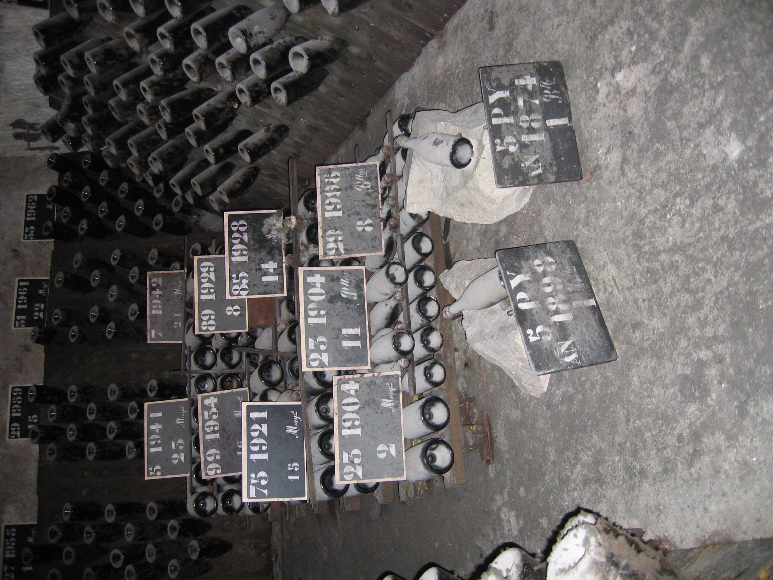 Old reference bottles in the cellars of Champagne Pommery, Reims